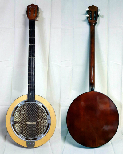 Picture of Musical instrument from the website Creative Commons Attribution Share-alike license (CC-BY-SA